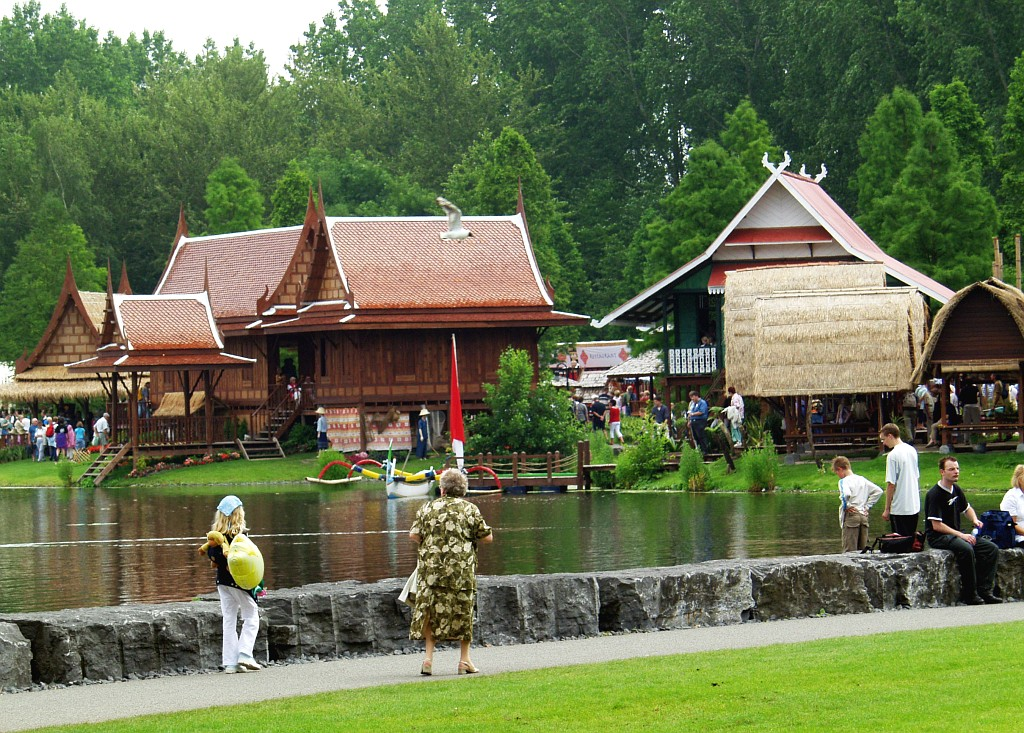 Impressions of Floriade 2002